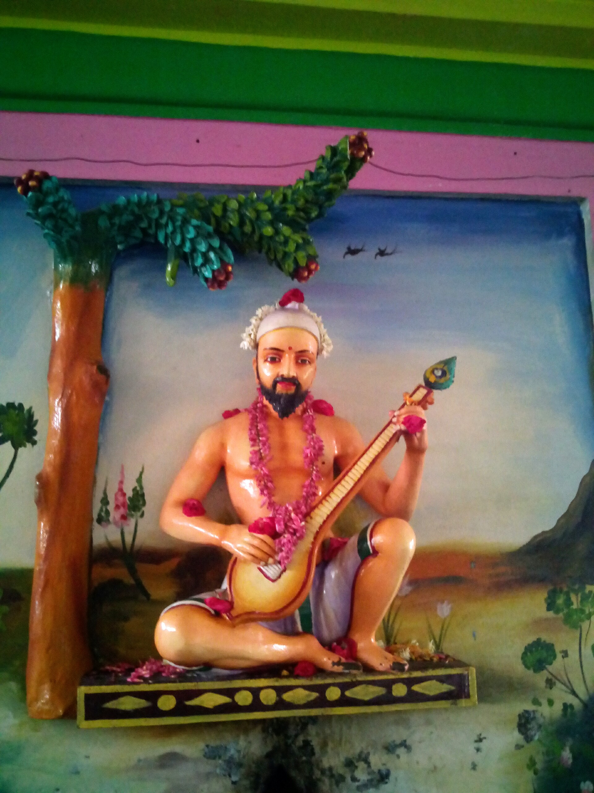 Sri Bade Sahib Siddhar temple are indeed of the temple in Viluppuram ..